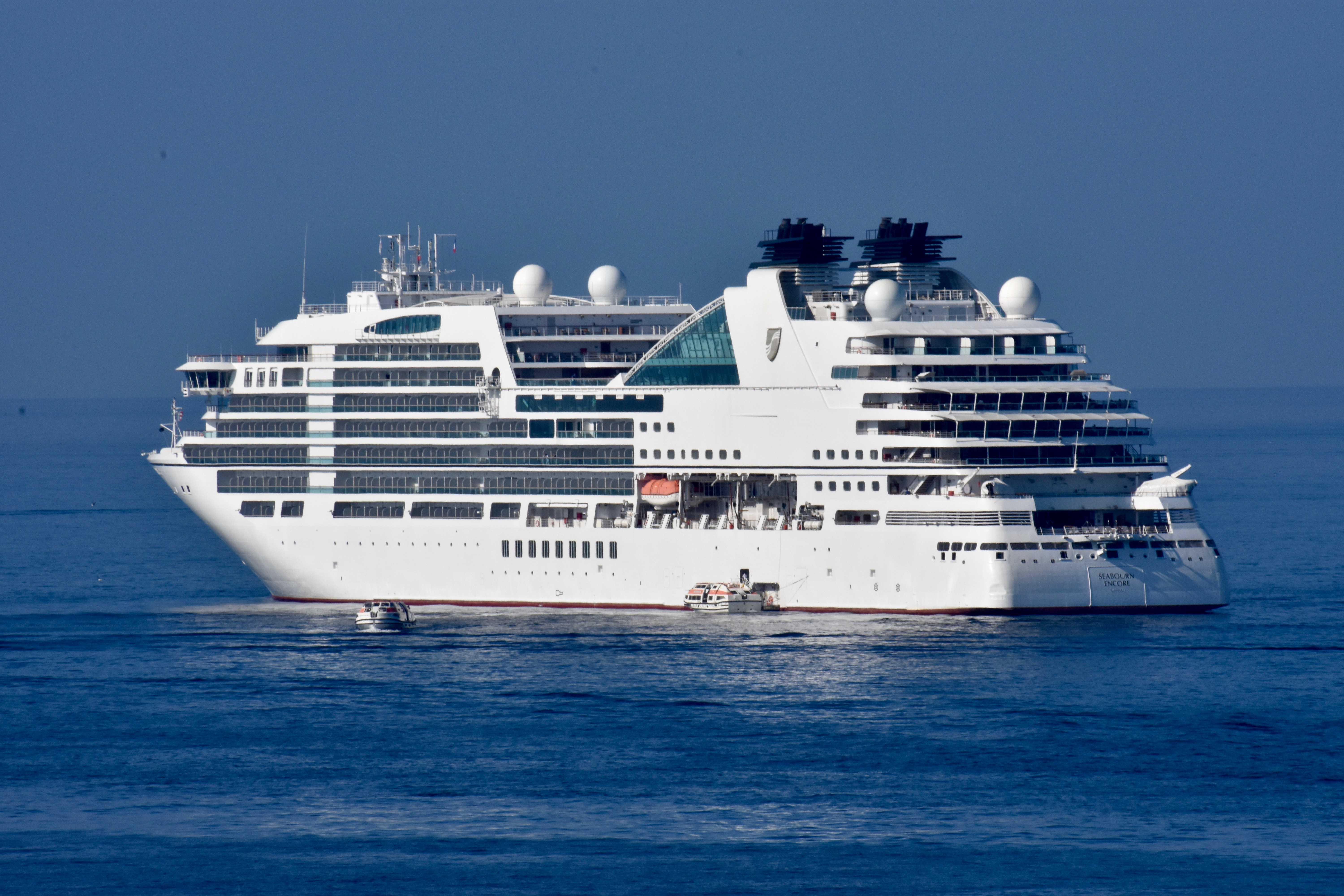 MV Seabourn Encore sailing anew a year after its collision. The ship is part of a new class of leisure liners.